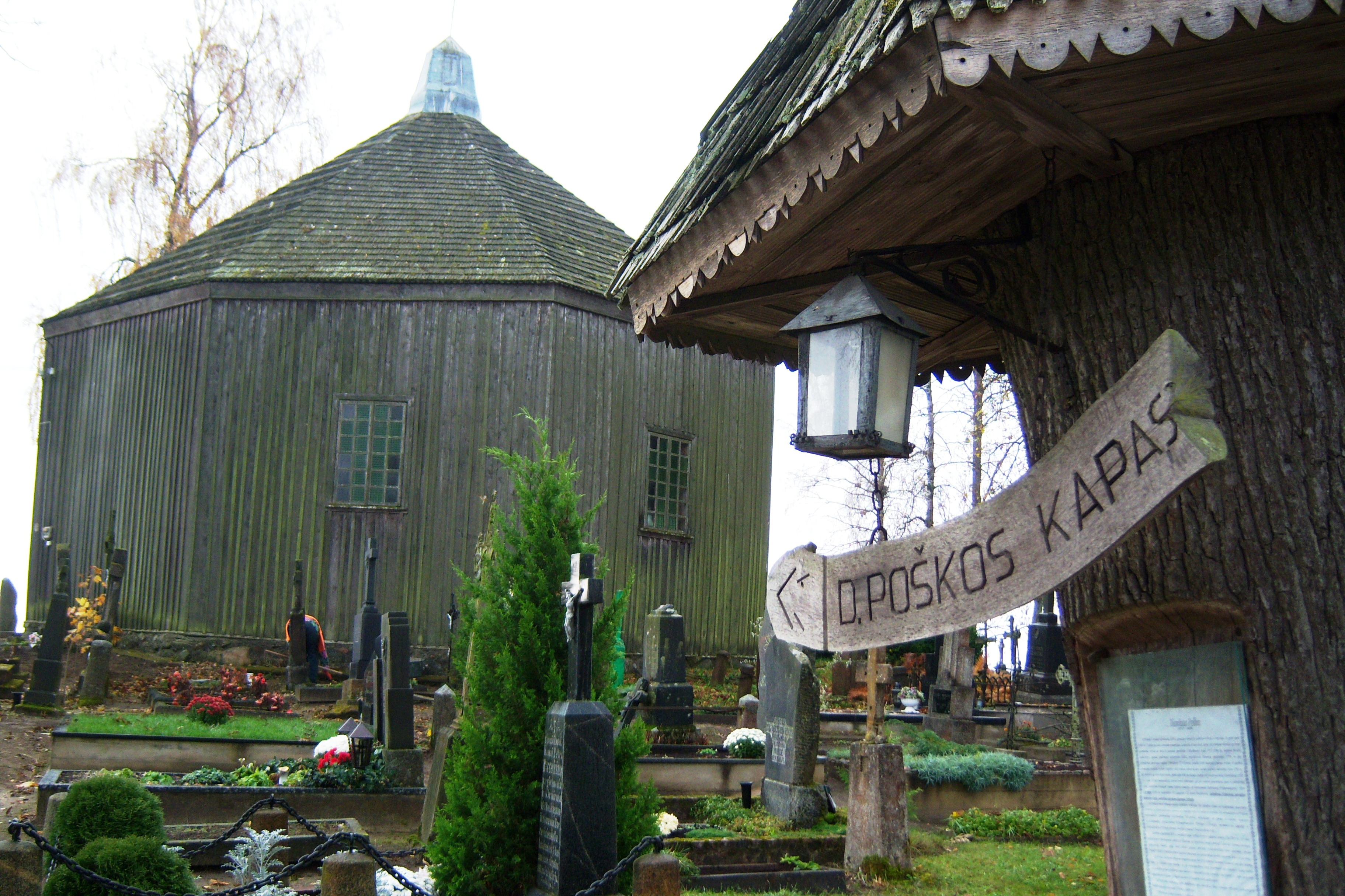 Kaltinėnai cemetery, Šilalė district, Lithuania